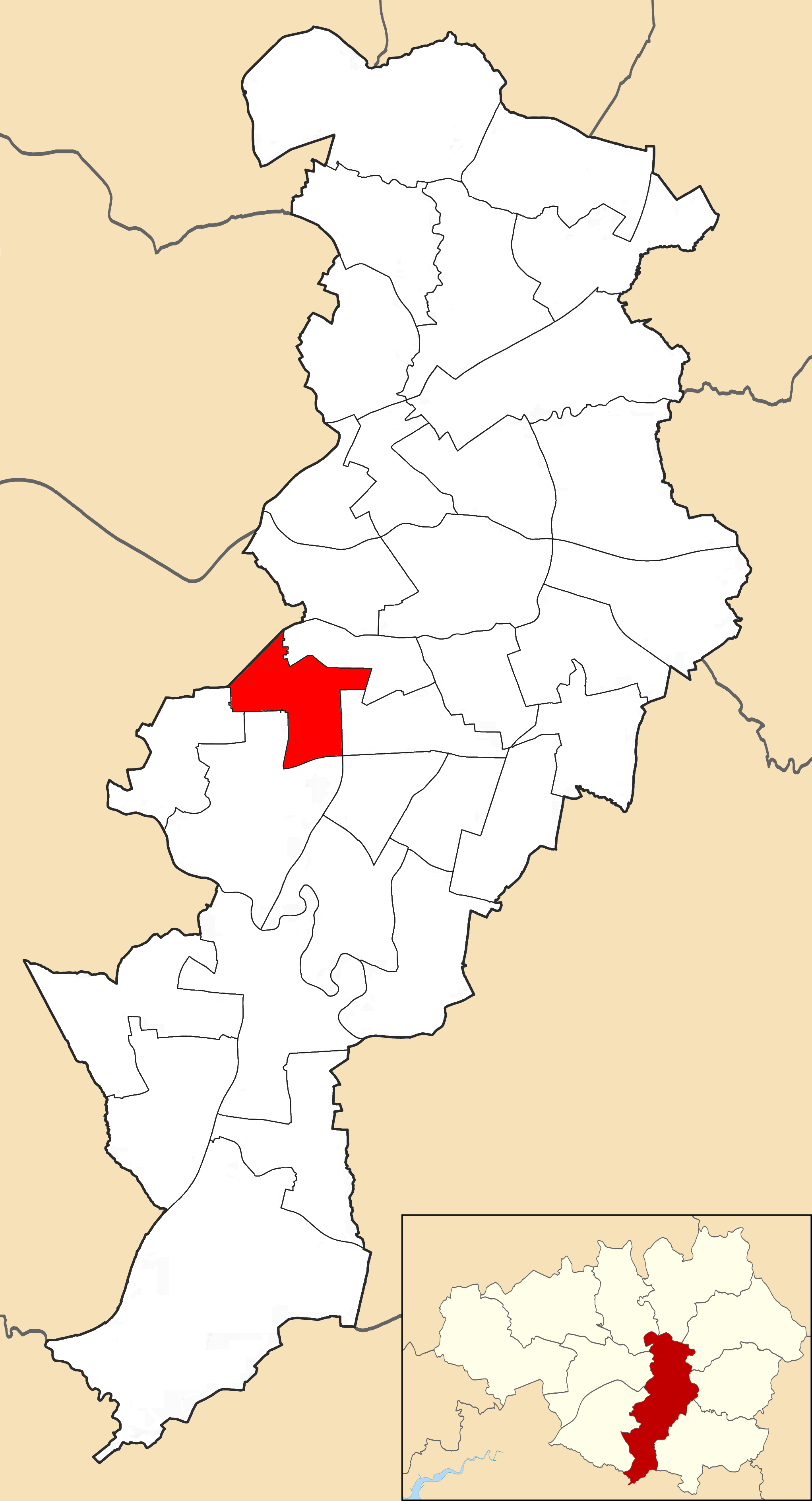 Map showing location of Whalley Range ward within Manchester City Council.